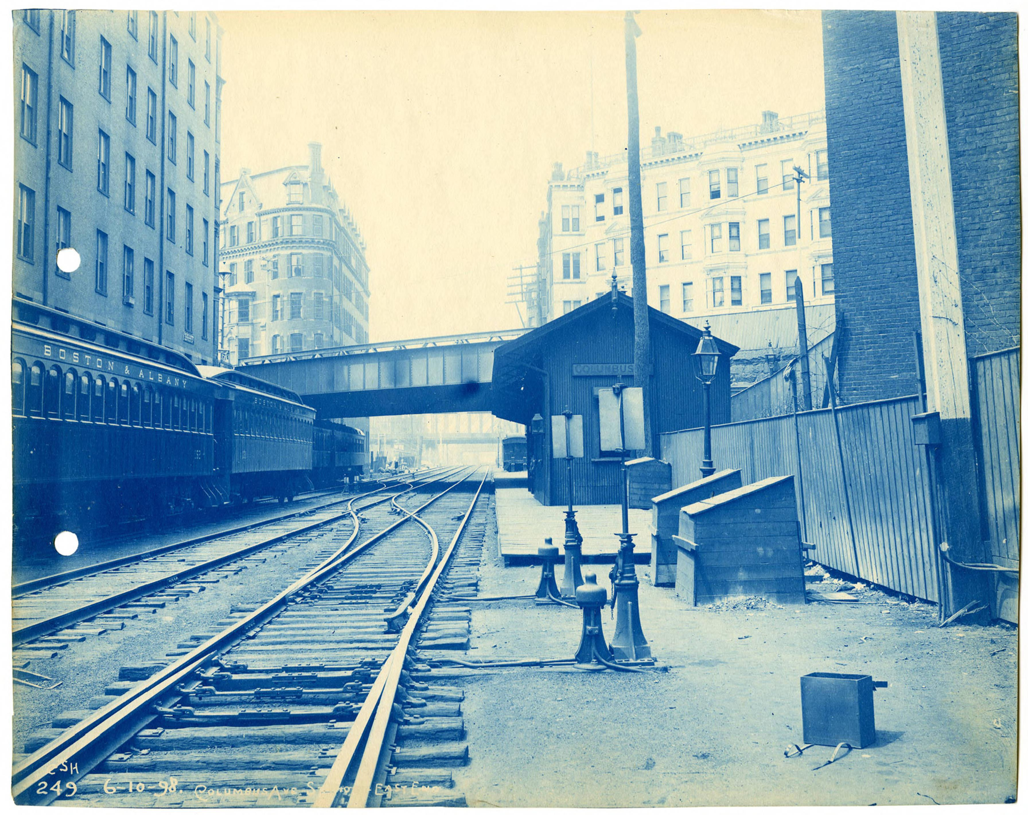 The east end of the Boston & Albany Railroad's Columbus Avenue station in 1898. From the Athenaeum description: Part of a collection of cyanotype photographs documenting the buildings and tracks of the Boston and Albany Railroad Company in Boston, Mass. in June 1898 before alterations caused by the construction of South Station. The photographer, Charles S. Harrington, was employed as a bookkeeper for the Boston and Albany Railroad Company. He also exhibited work at the Boston Art Club.